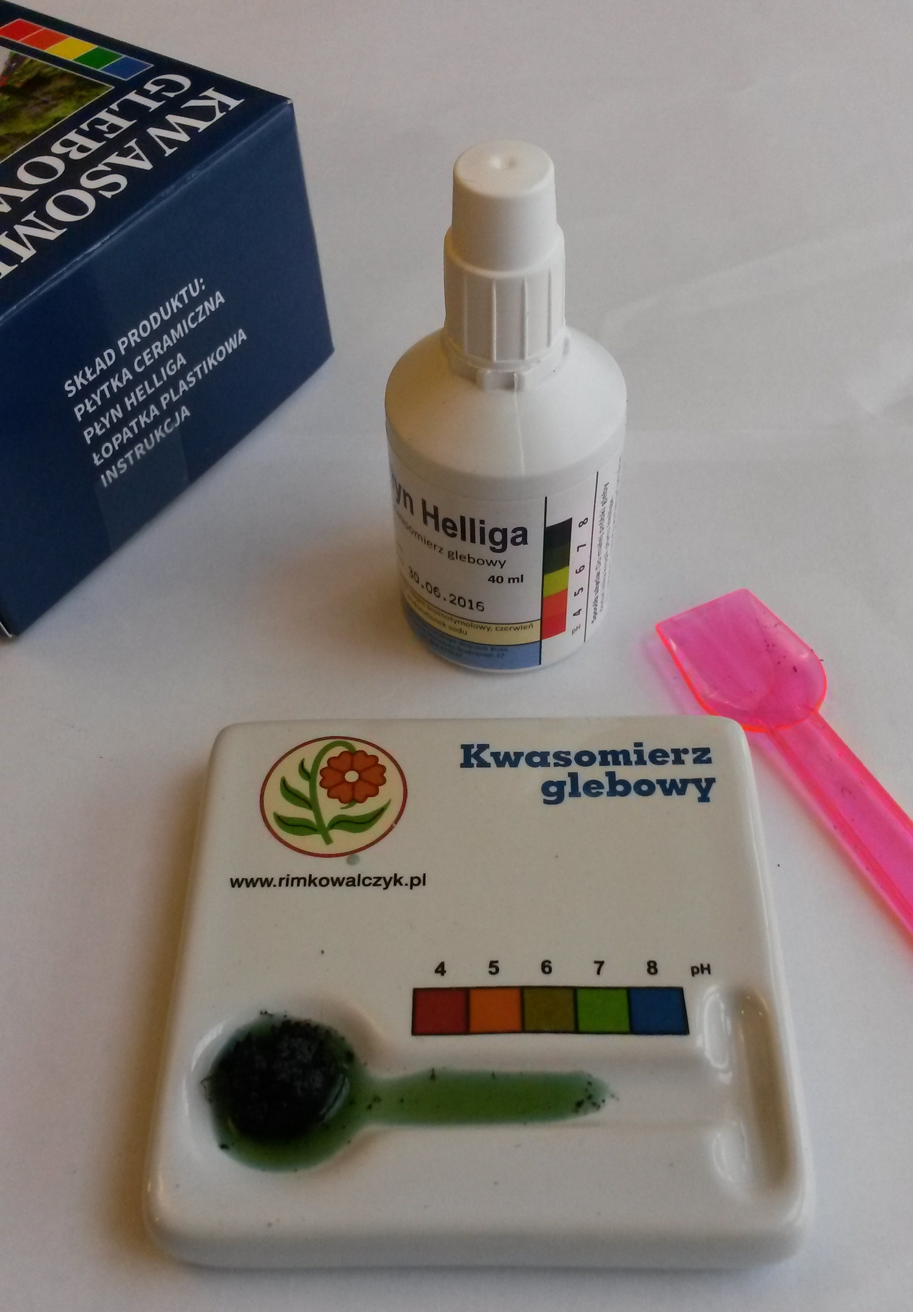 Hellige pH Meter to mesure pH of soil by Hellige colorimetric method